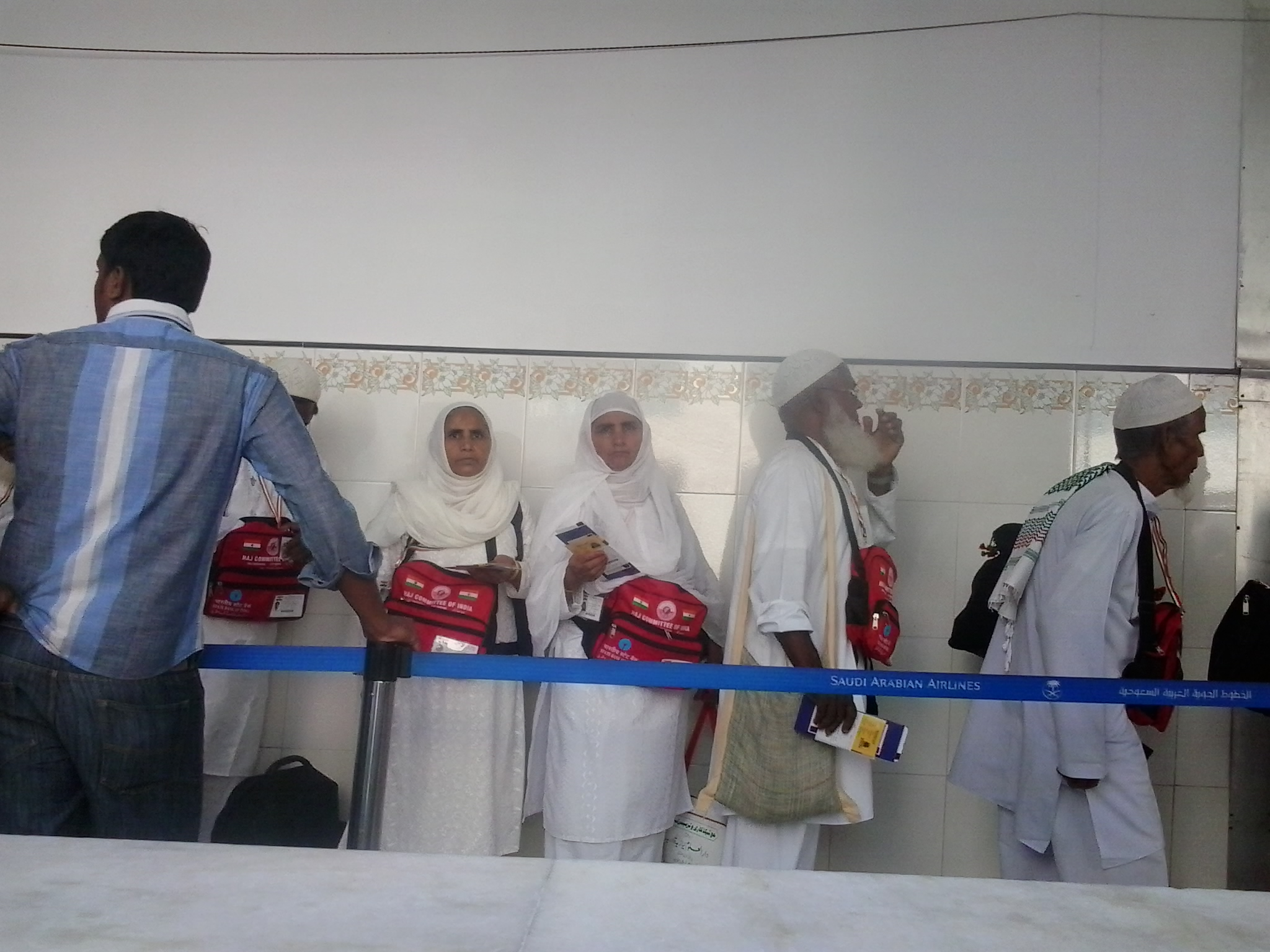 HAJJ BOUND PEOPLE